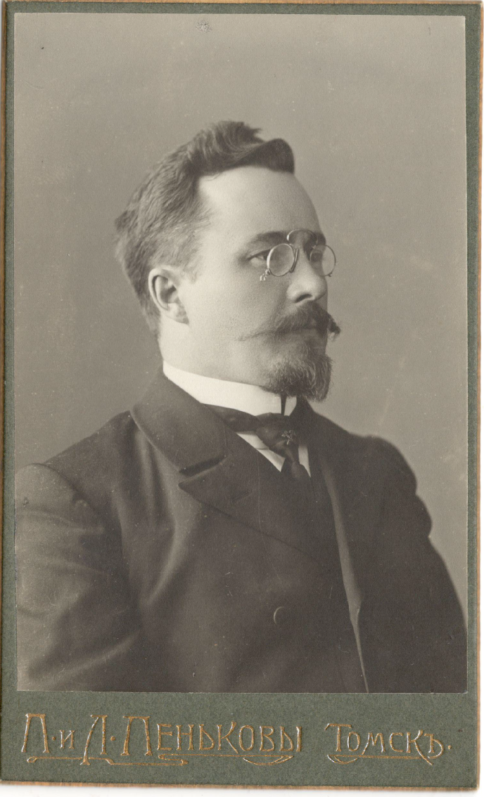 Russian scientist (metallurgy and coke) Nikolay Tchizhevsky, photo by P. and L. Lenkov, Tomsk, Russia, 1909.